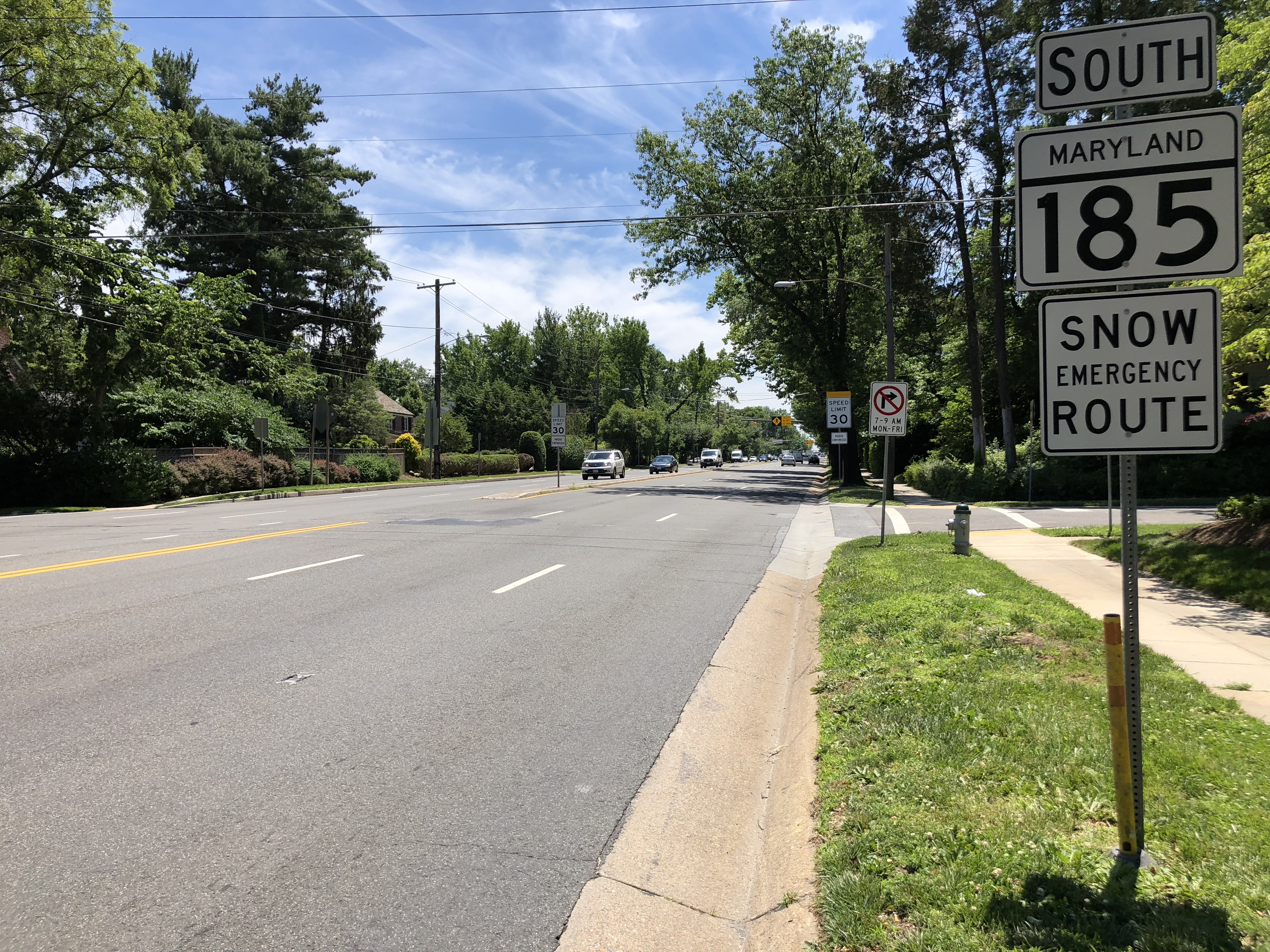 View south along Maryland State Route 185 (Connecticut Avenue) just south of Maryland State Route 410 (East-West Highway) within the Town of Chevy Chase, Montgomery County, Maryland